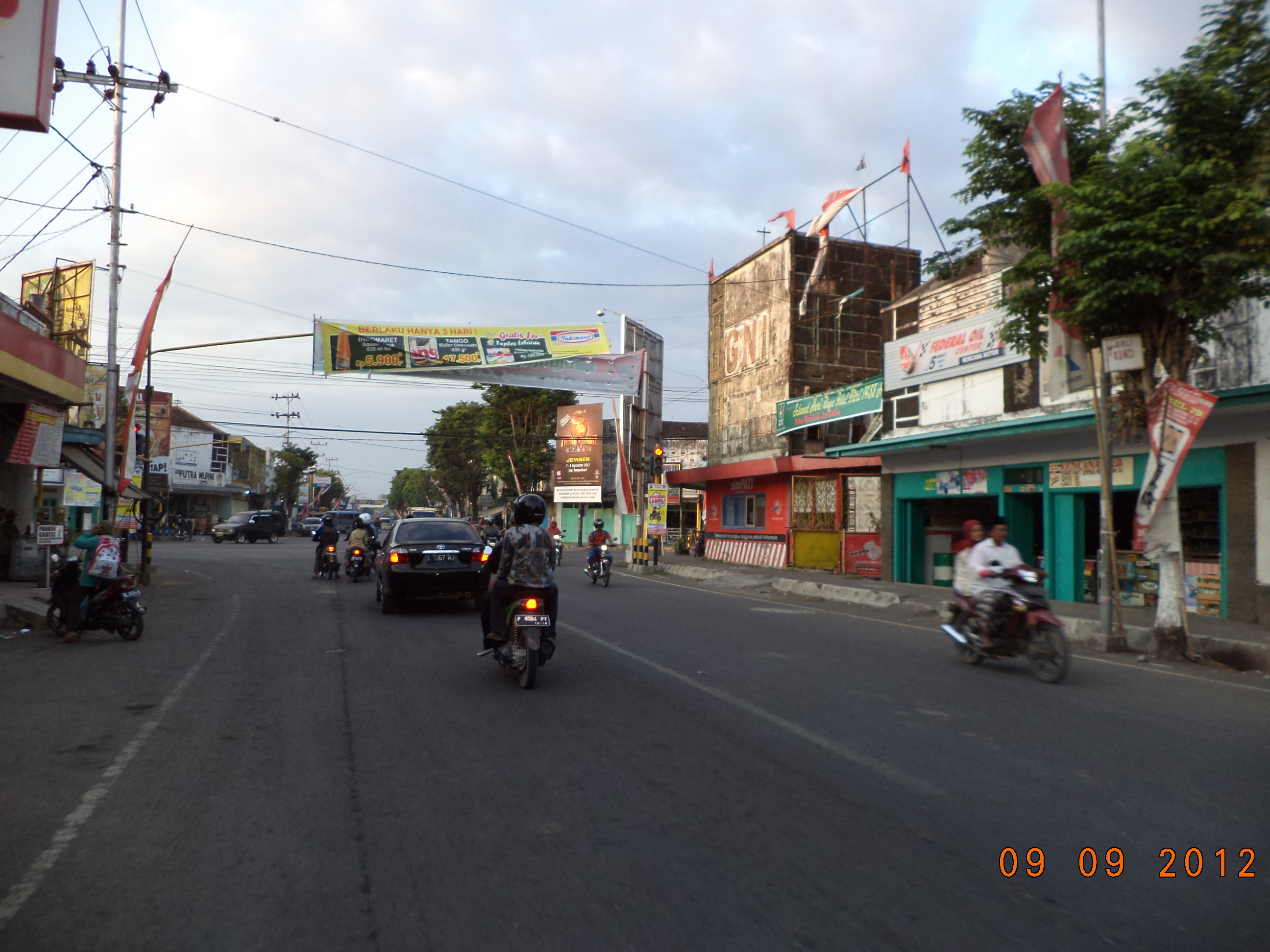 Photographer By: Much Nesha AR